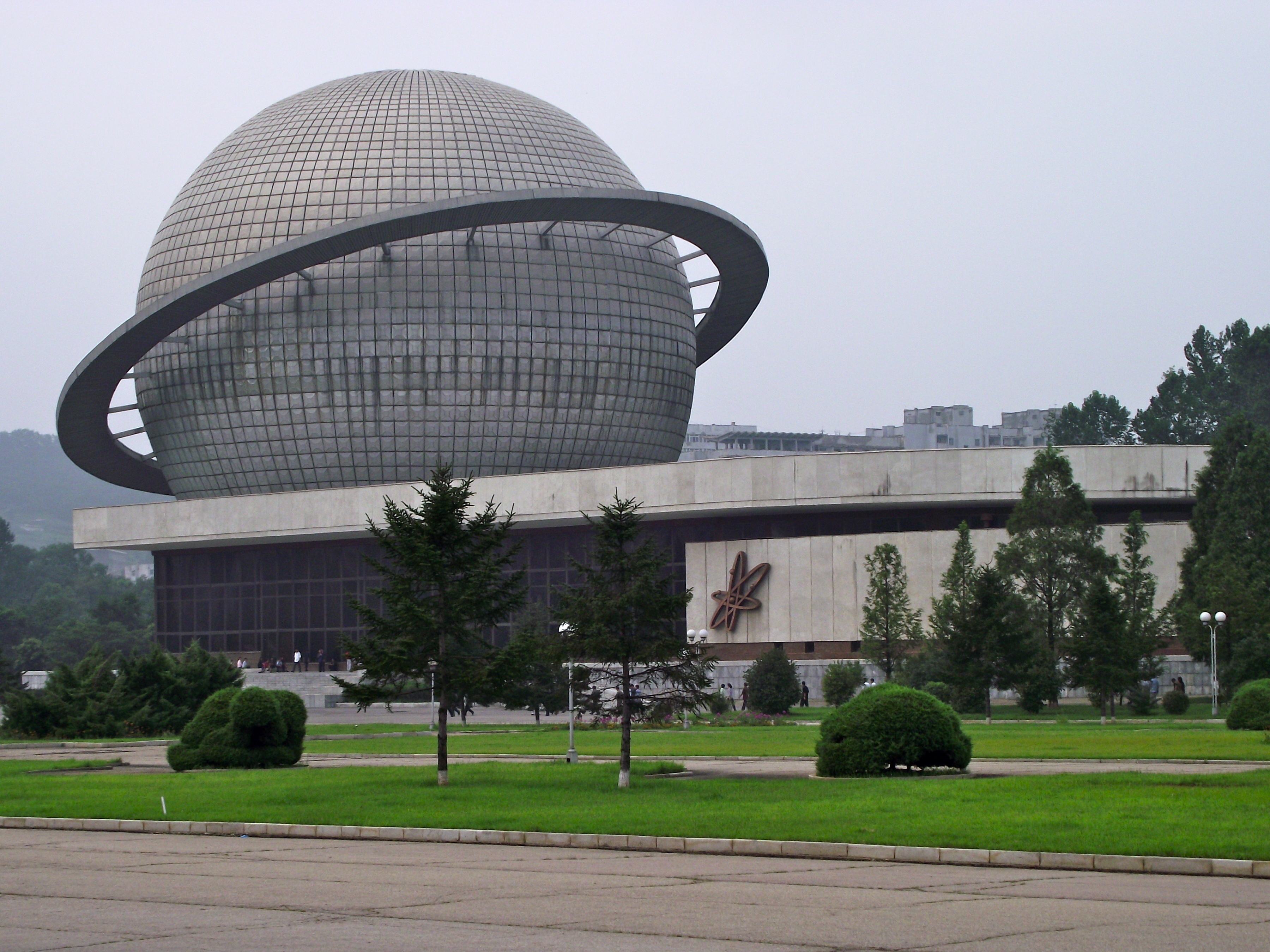 Electronics Hall, Three Revolutions Exhibition, Pyongyang